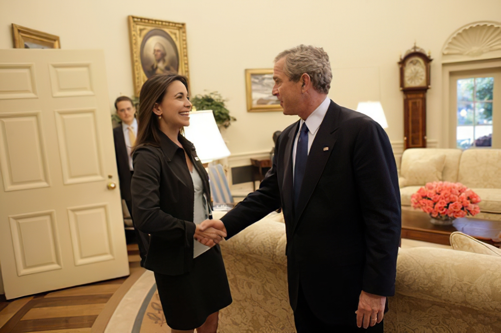 President George W. Bush welcomes María Corina Machado, the founder and executive director of Súmate, an "independent democratic civil society group" (directly funded by the U.S government) in Venezuela, to the Oval Office Tuesday